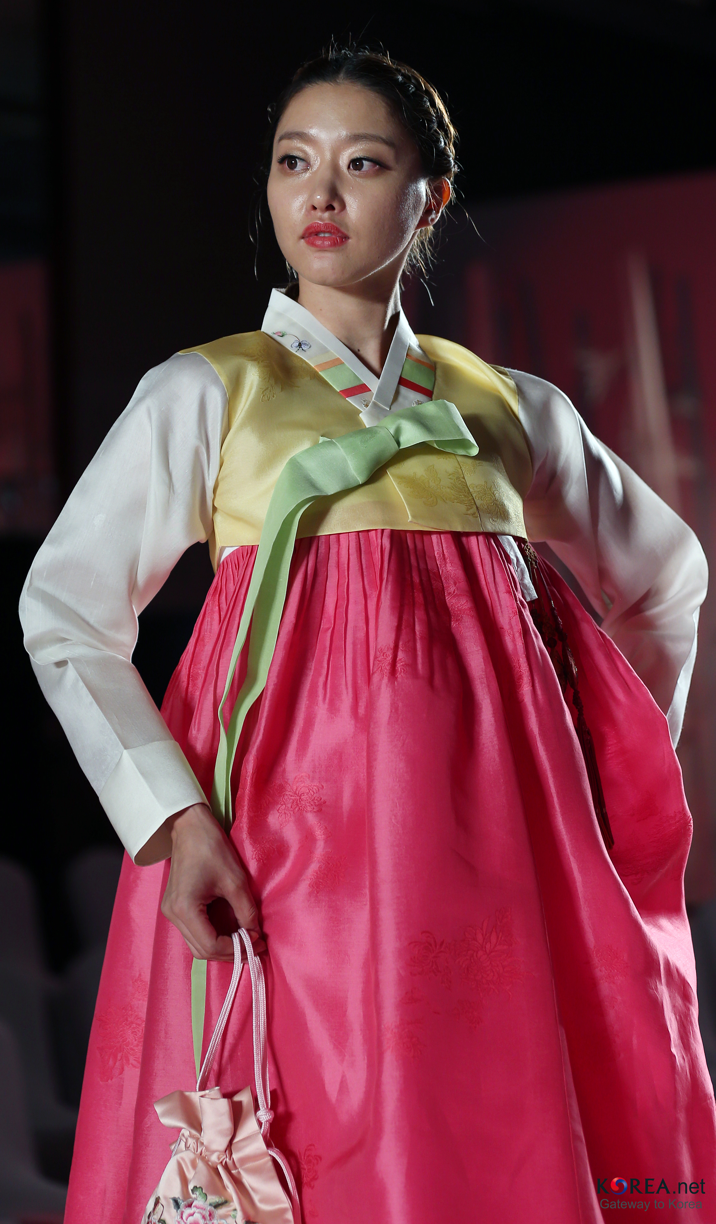 Hanbok-Ao Dai Fashion Show, Hanoi, Vietnam